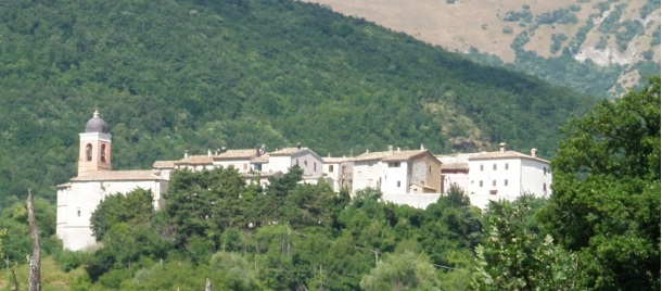 Fabriano Bastia viewed from Monte Cucco street